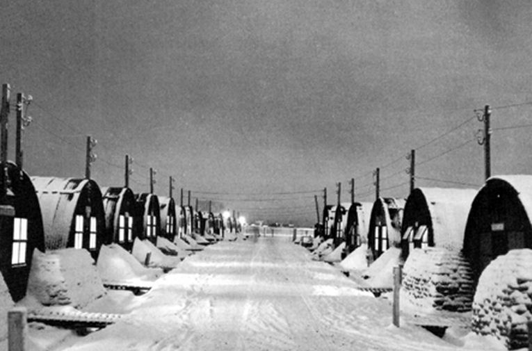 Army Posts In Iceland Camp Pershing 1942